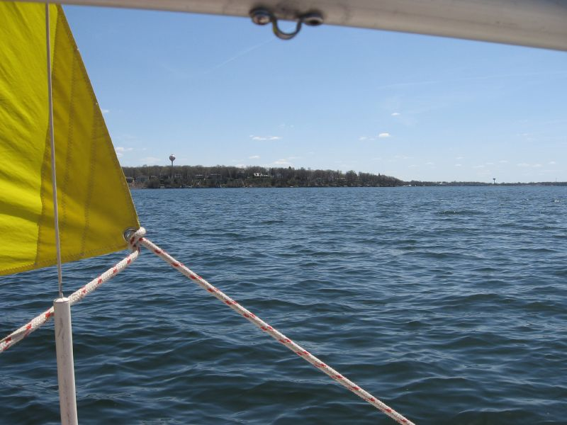 Sailing West Okoboji Lake, Dickinson County, Iowa